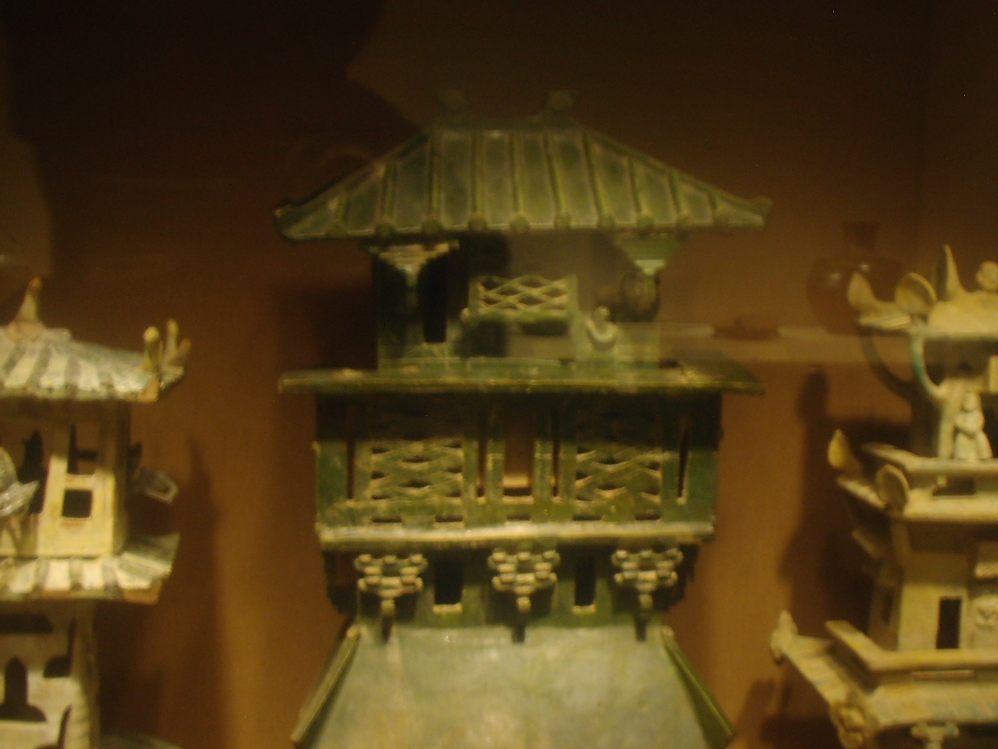 This is one of twelve pictures showing architectural models dated to the Chinese Eastern Han Dynasty (25–220 AD), made of earthenware with a green lead glaze, featured at the Metropolitan Museum of Art in New York City. The items include: Three watchtowers House with a courtyard Granary tower A large stove A mill A wellhead with a bucket Domesticated animal pens A square duck pond with rails